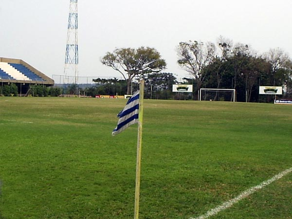 Estadio Juan Canuto Pettengill